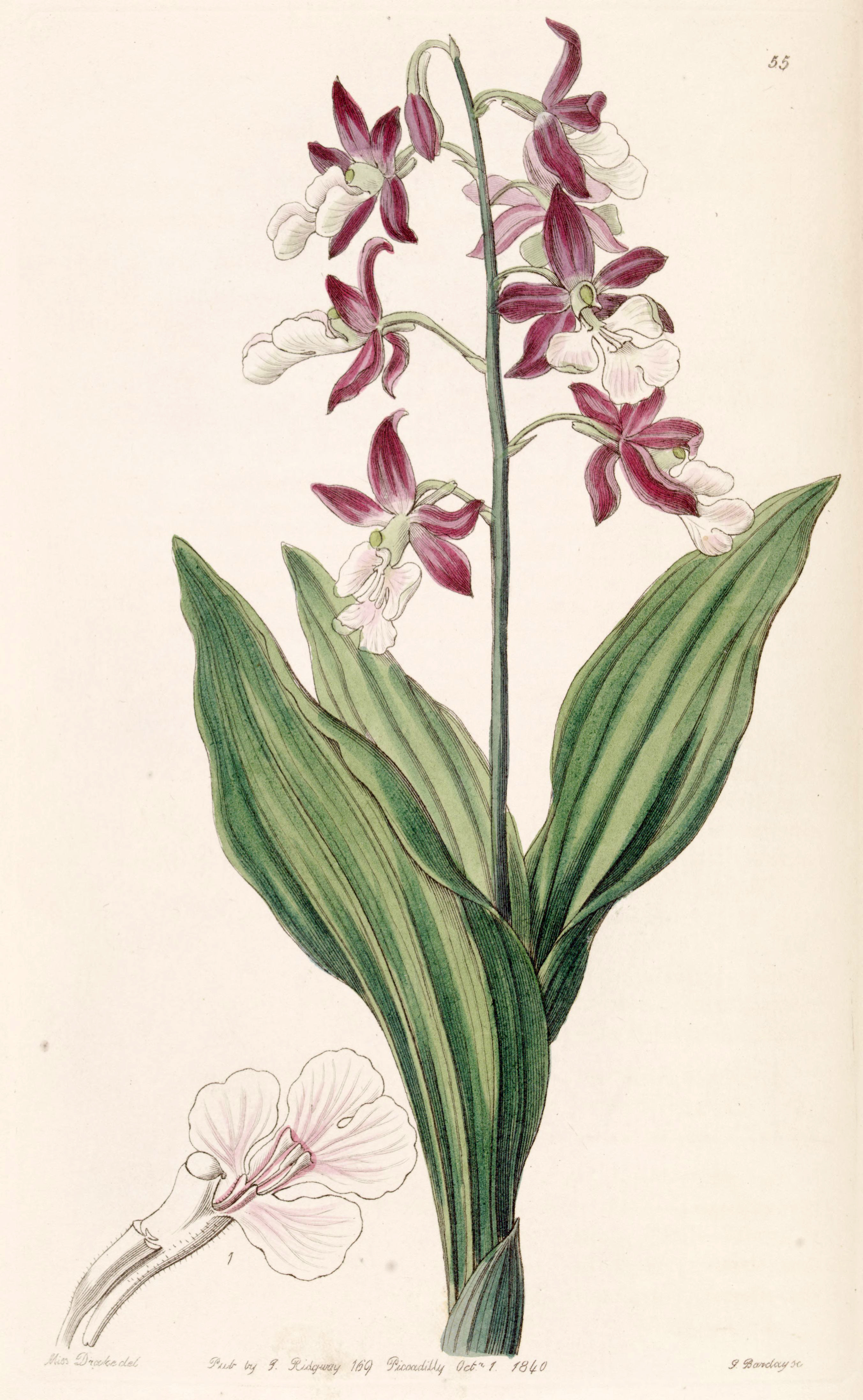 Calanthe discolor